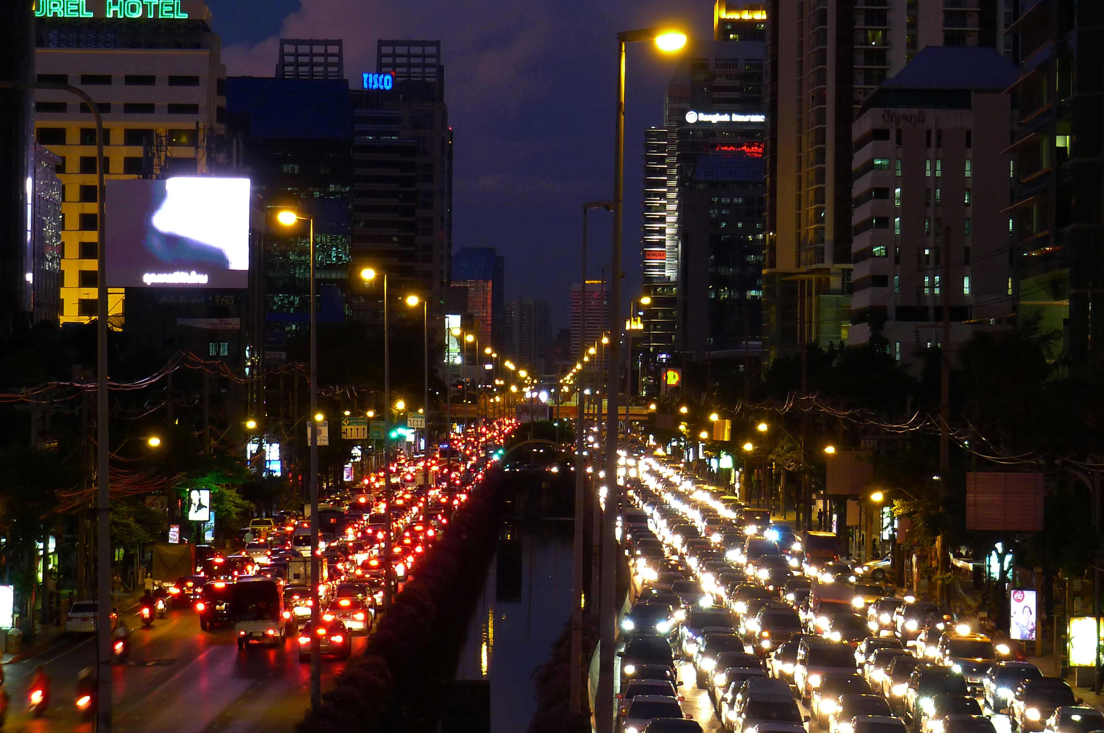 Sathon Road in Bangkok at rush hour near the intersection with Naradhiwas Rajanagarindra Road.